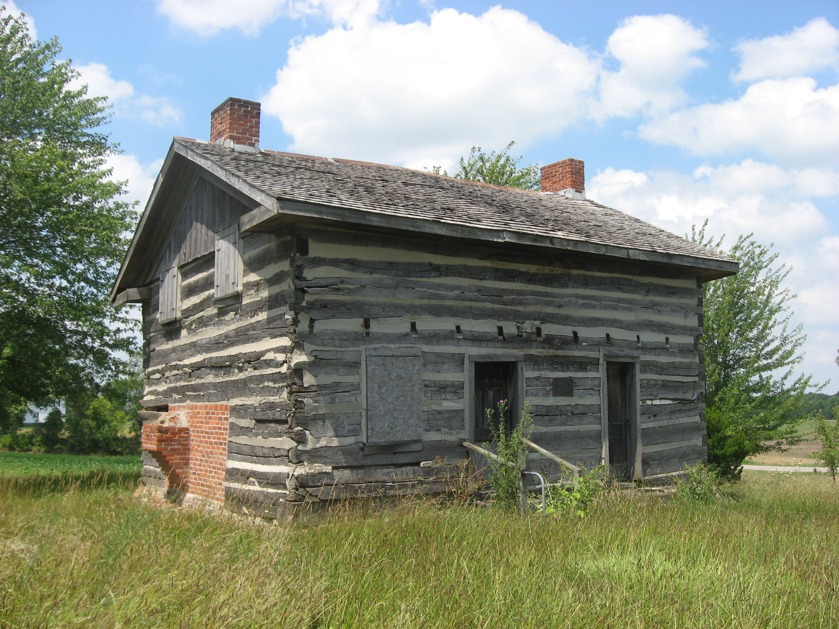 Front and southern side of the Kunkle Log House, located along County Road O east of Kunkle in Madison Township, Williams County, Ohio, United States. Built in 1838, it is listed on the National Register of Historic Places.